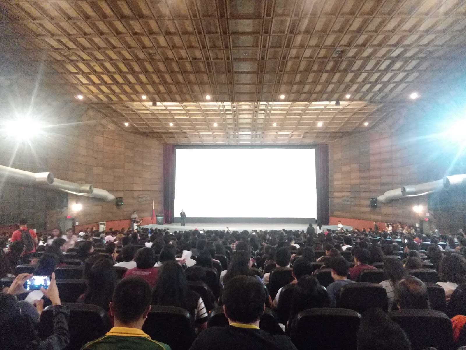 On April 3, 2017, the film had a special screening of the film in it's original uncut version at the Cine Adarna, UP Diliman, Quezon City. Hundreds of people who have been looking forward to see the film flocked the theater. But only a limited number of people got accommodated and had the chance to see the film in it's original form. The screening was graced by the film's director Jerrold Tarog, alongside the film's actresses, Adrienne Vergara and lead Iza Calzado.